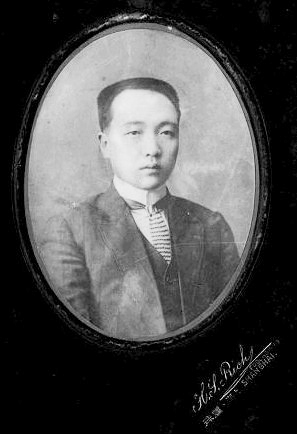 Jing Wumu (1888-1918)